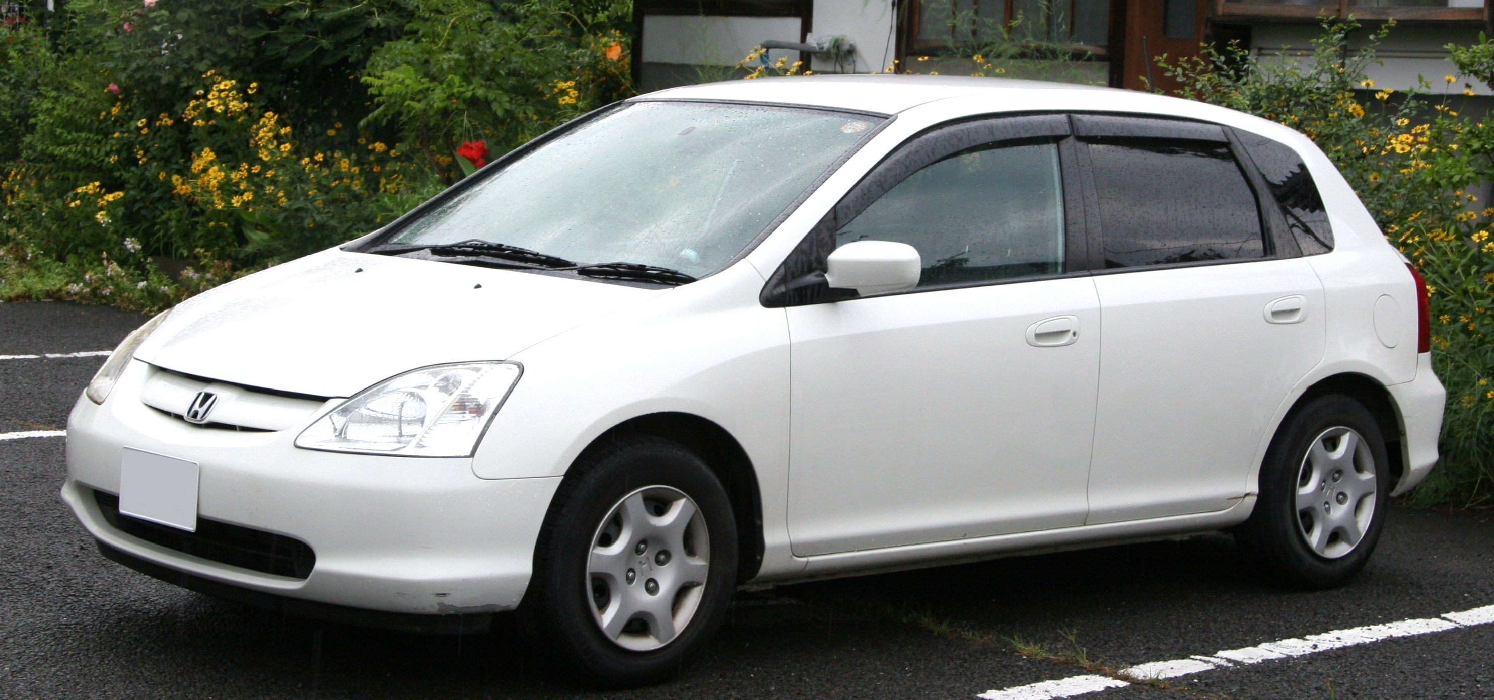 Honda CIvic